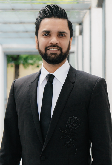 This is a professional shot of Educationist, Counsellor and Activist, Dr. Karan Gupta